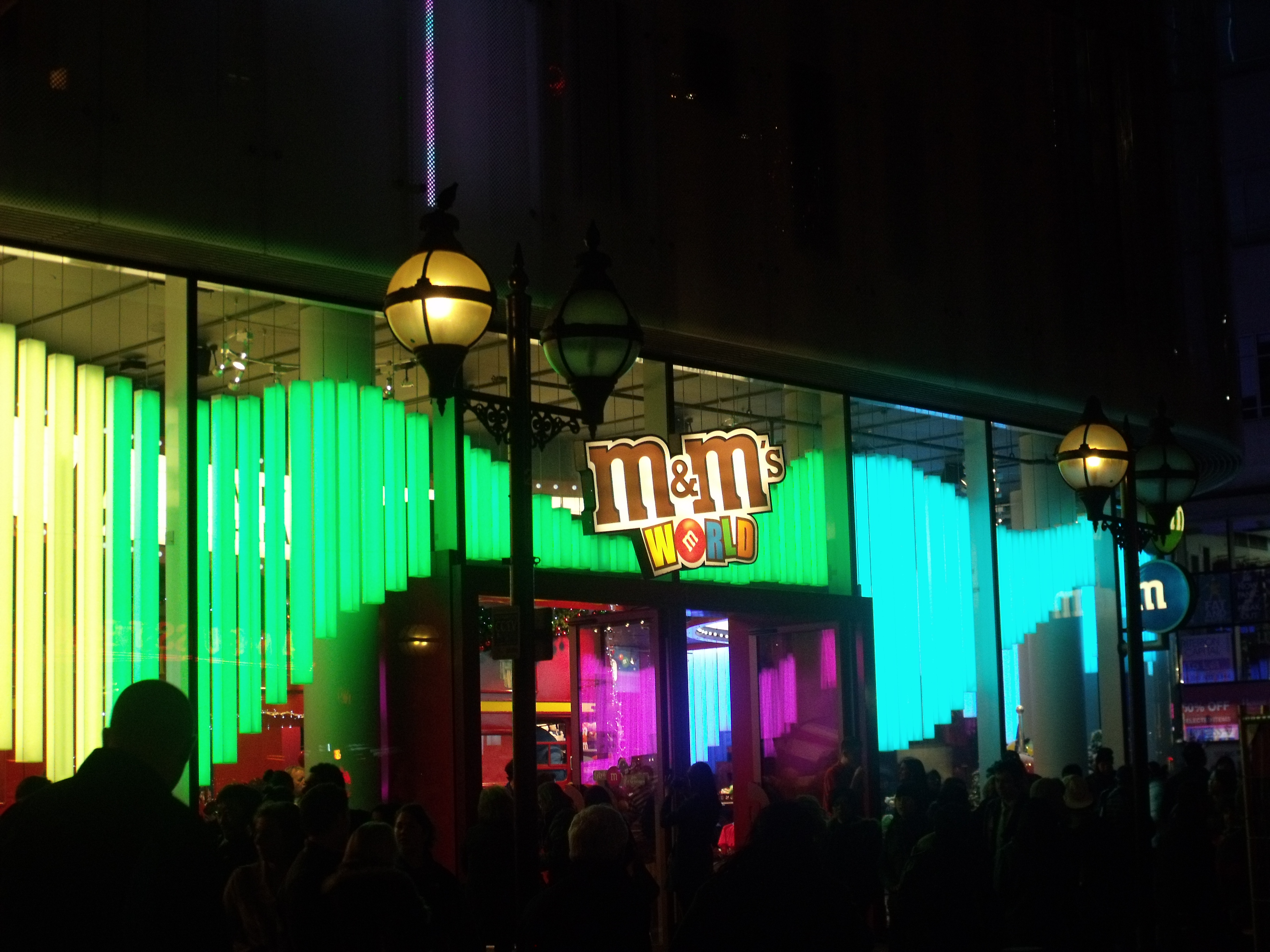 Near Leicester Square in London. This big store is M & M's World. This 35,000 square feet store selling M&Ms products and merchandise is the largest candy store in the world. Mainly took it for the colourful lights at night. This must have been built in the last two years or so. As it wasn't here 2 years ago (was a construction site in my previous photos of the Cantonal Tree). Probably on the site of the Swiss Centre.